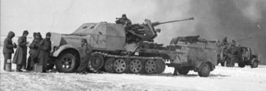 Wrong description, SdKfz-7/2 SPAA gun.